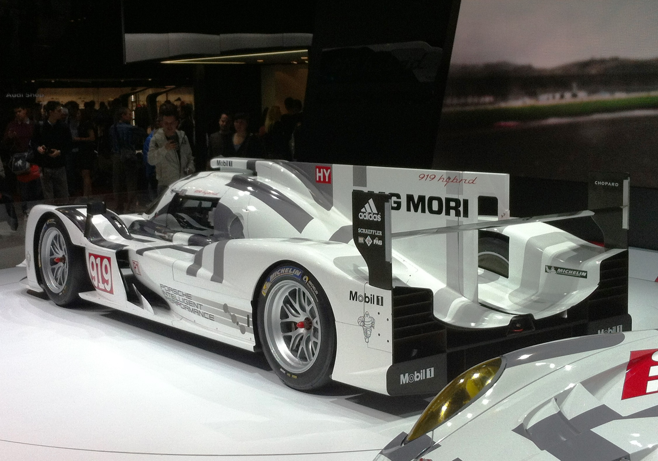 Porsche 919 Hybrid at Geneva Motor Show 2014